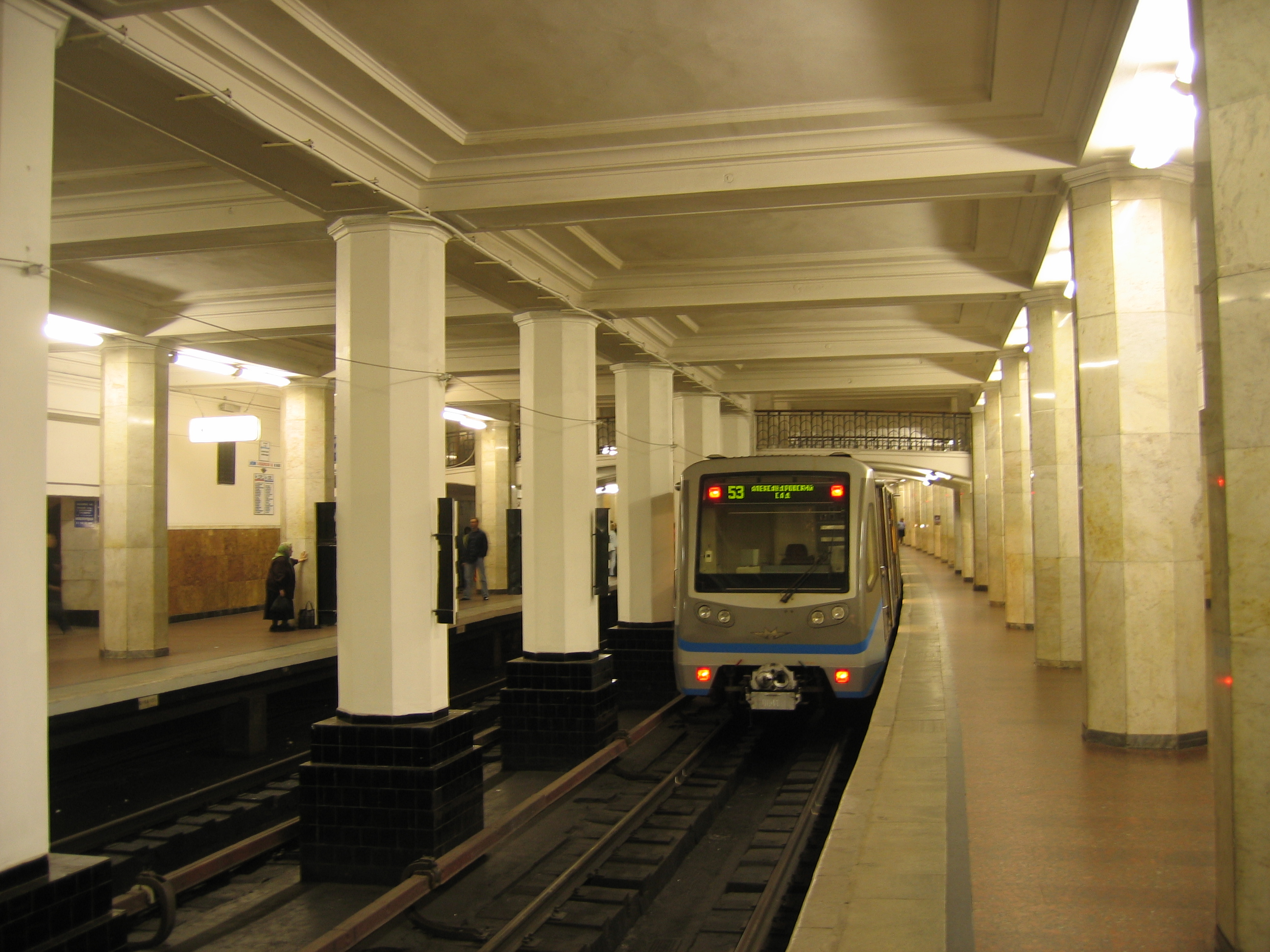 Station Alexandrovsky Sad of Moscow Metro